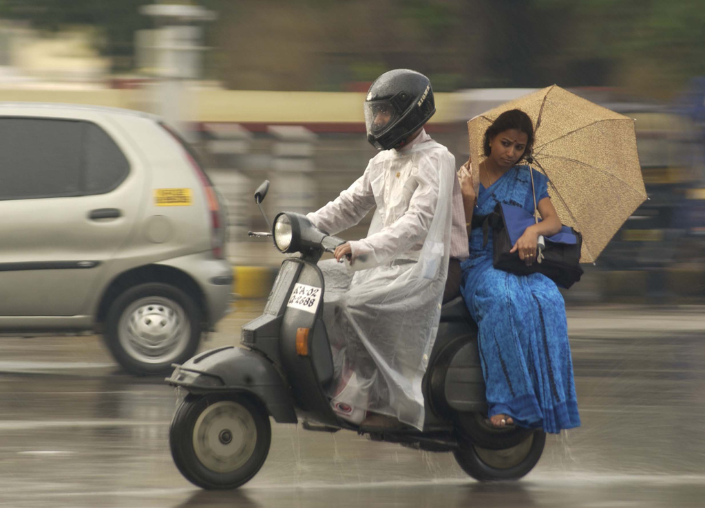 Original caption: Romancing the rain in bangalore.